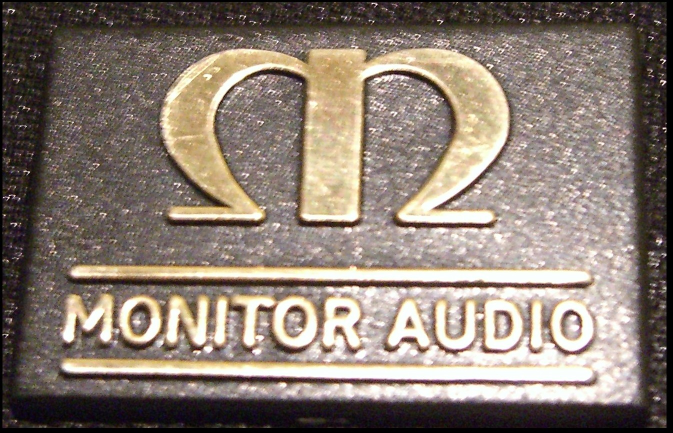 Monitor Audio logo